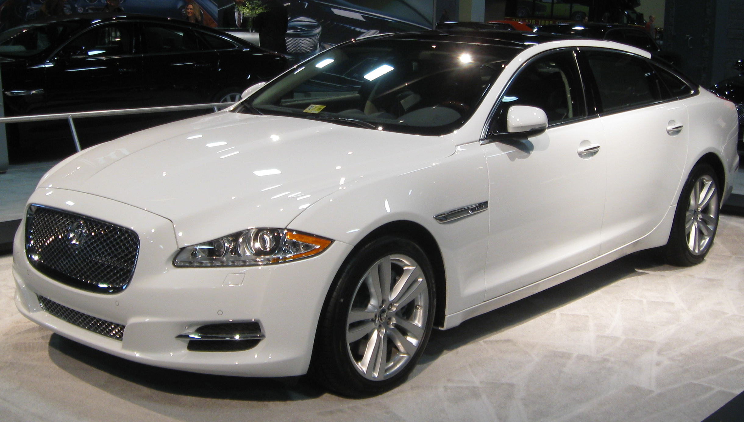 2011 Jaguar XJ8 photographed at the 2011 Washington (D.C.) Auto Show.